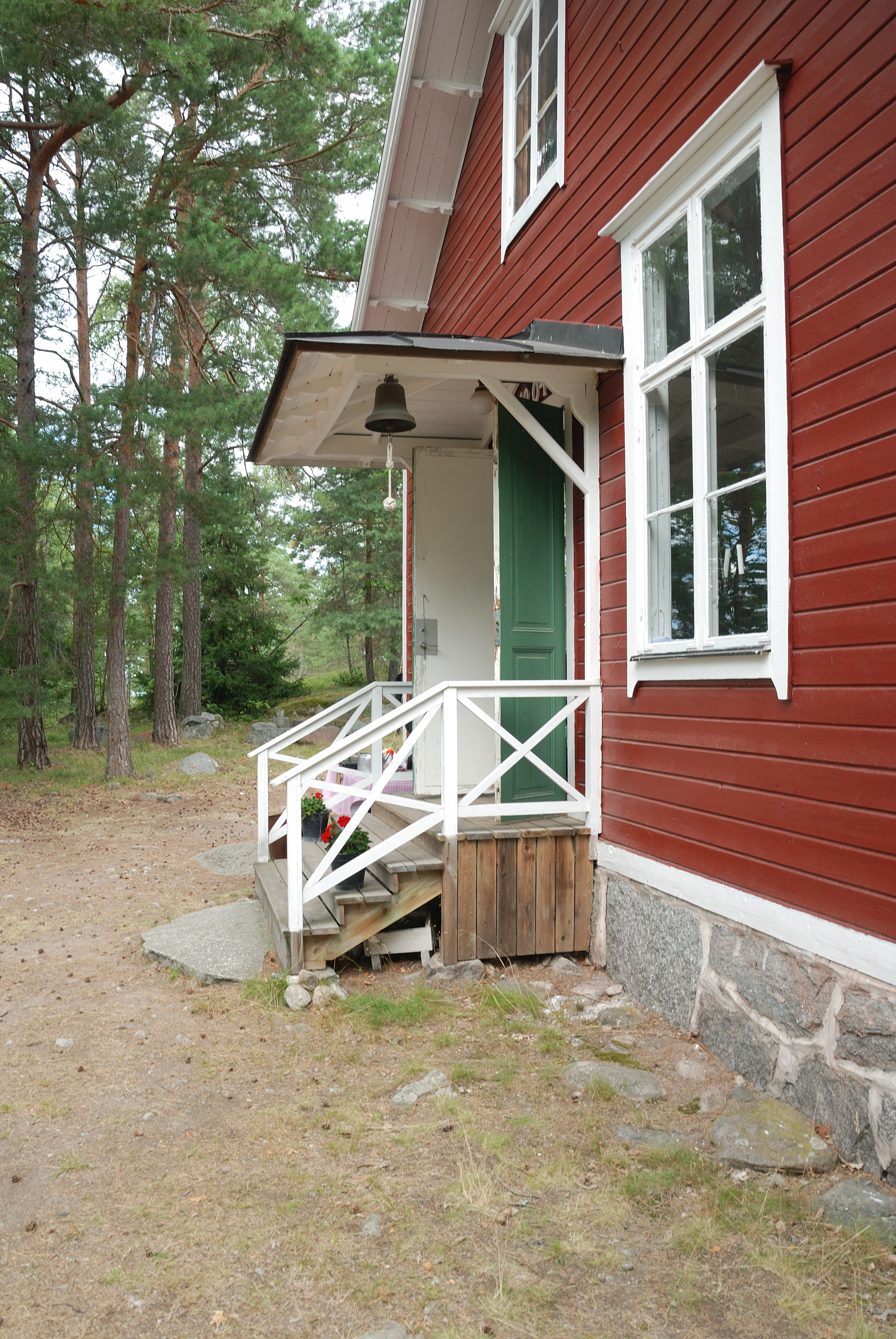 Ingmarsö missionshus